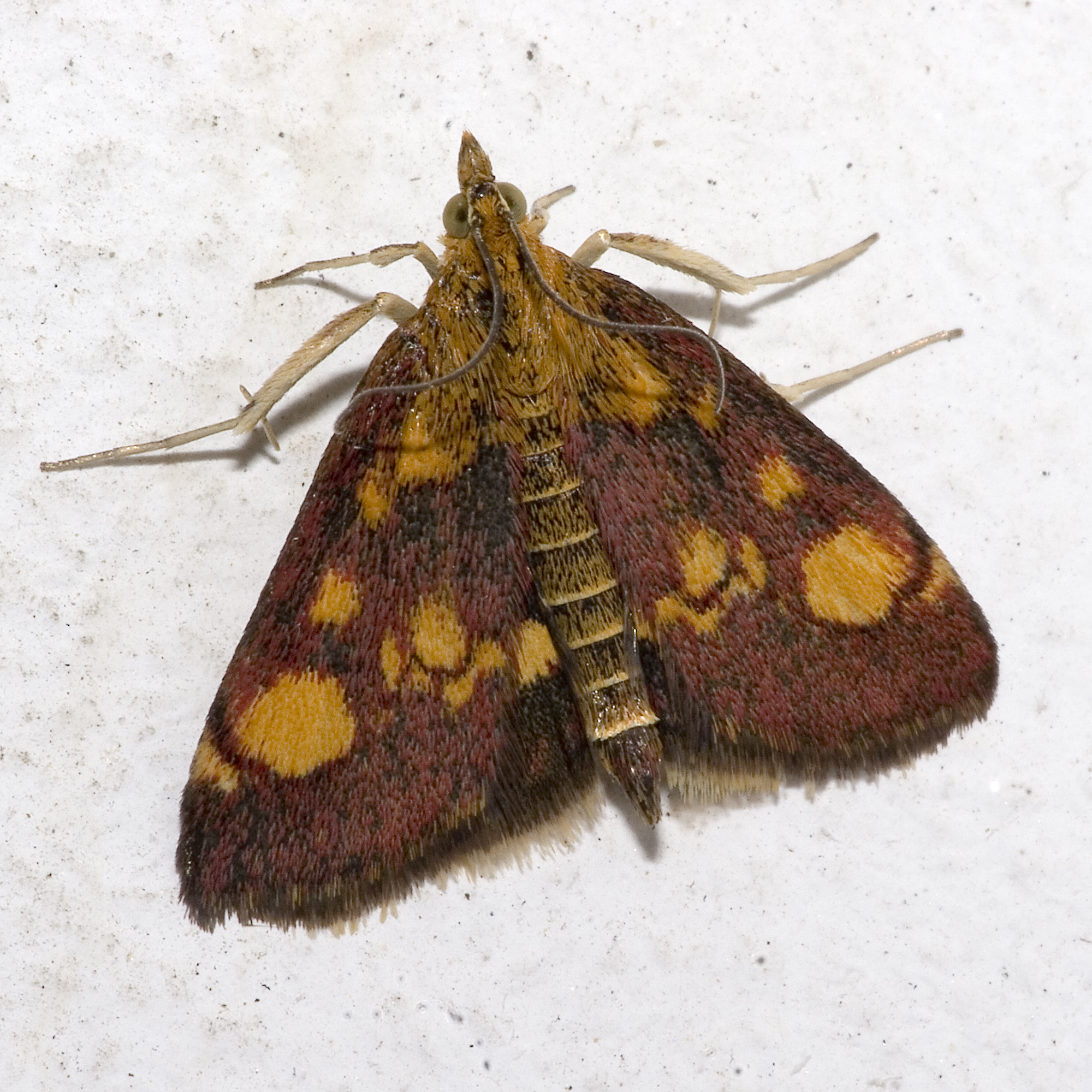 minth moth